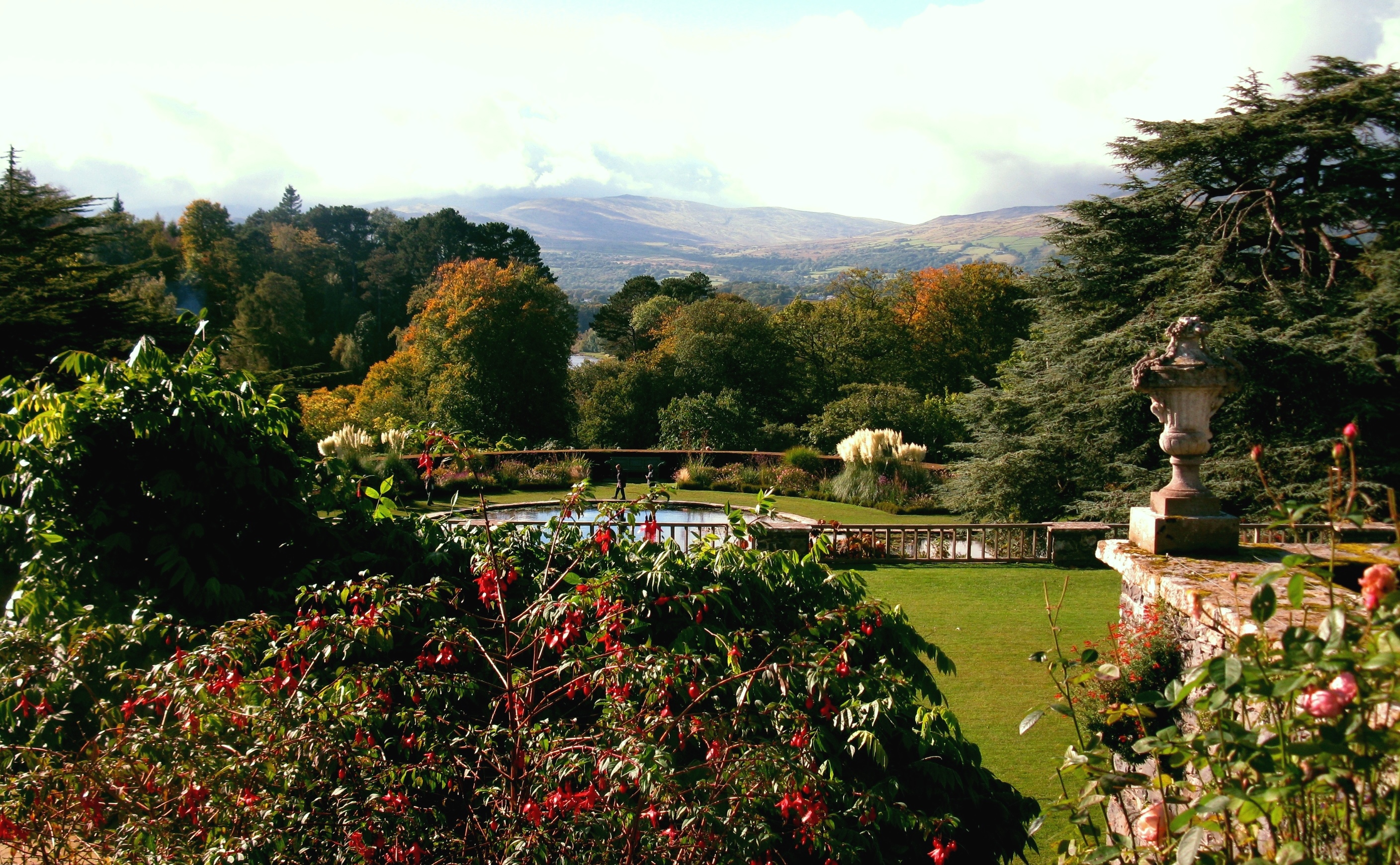 View of mountains from The Terraces at Bodnant Garden